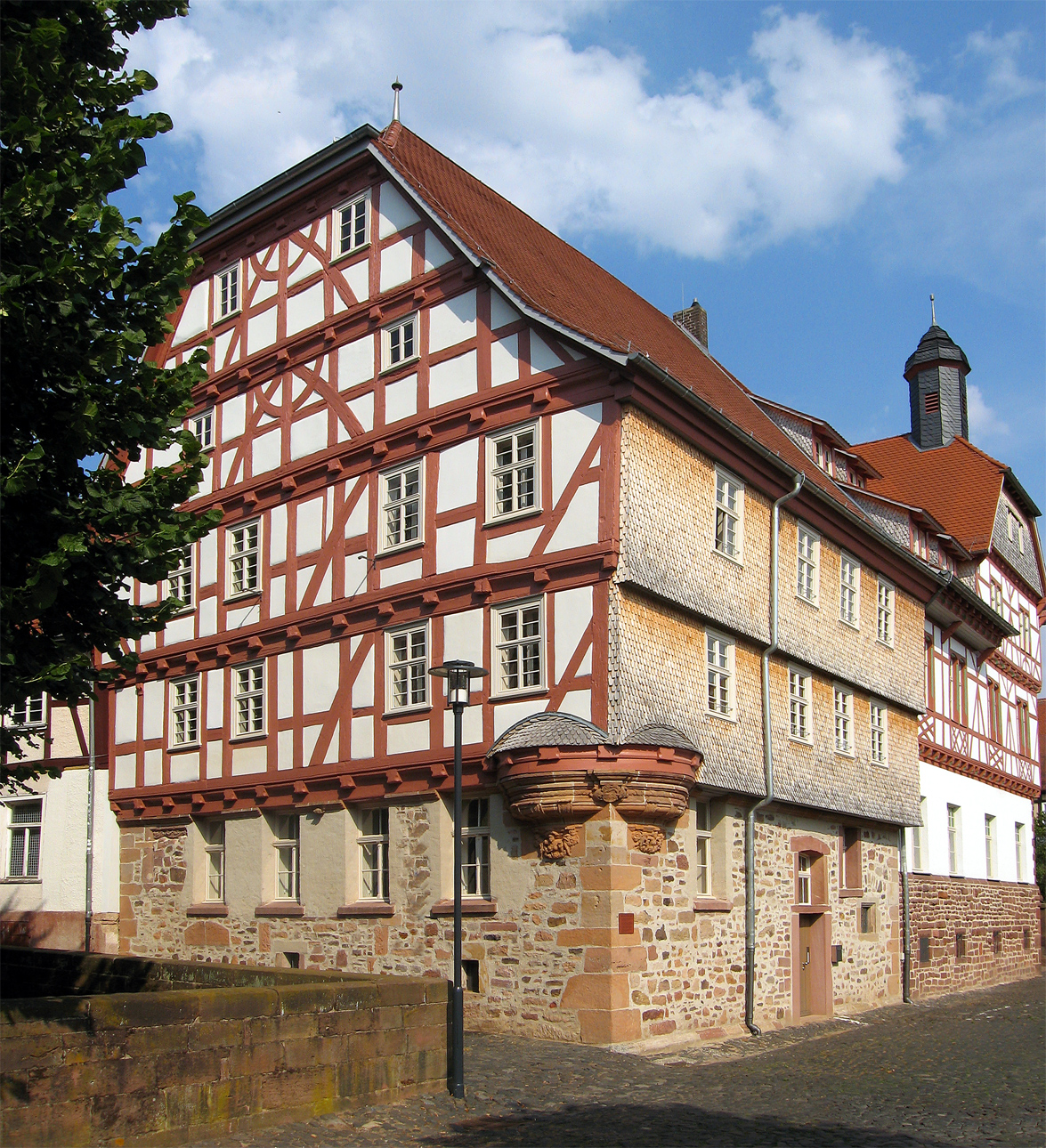 The left hand side of the building is build in 1545 (Burgsitz des Dörnbergschen Amtmanns Reinhard Schenk) and used by nuns (Vincentinnerinnen) since 1891. The right hand side is build in 1906/07 by the nuns.